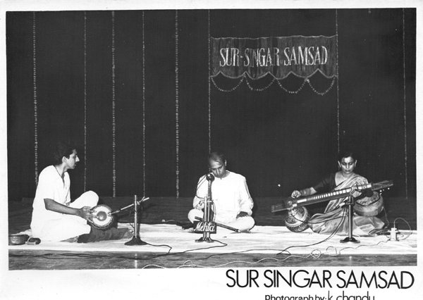 Photo of duet concert at Mumbai using electronic veena